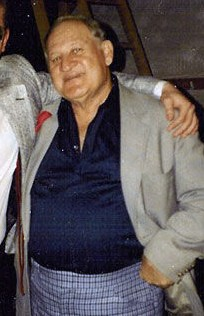 American jazz trombonist Carl Fontana at Ball State University, Muncie, Indiana, 1989.